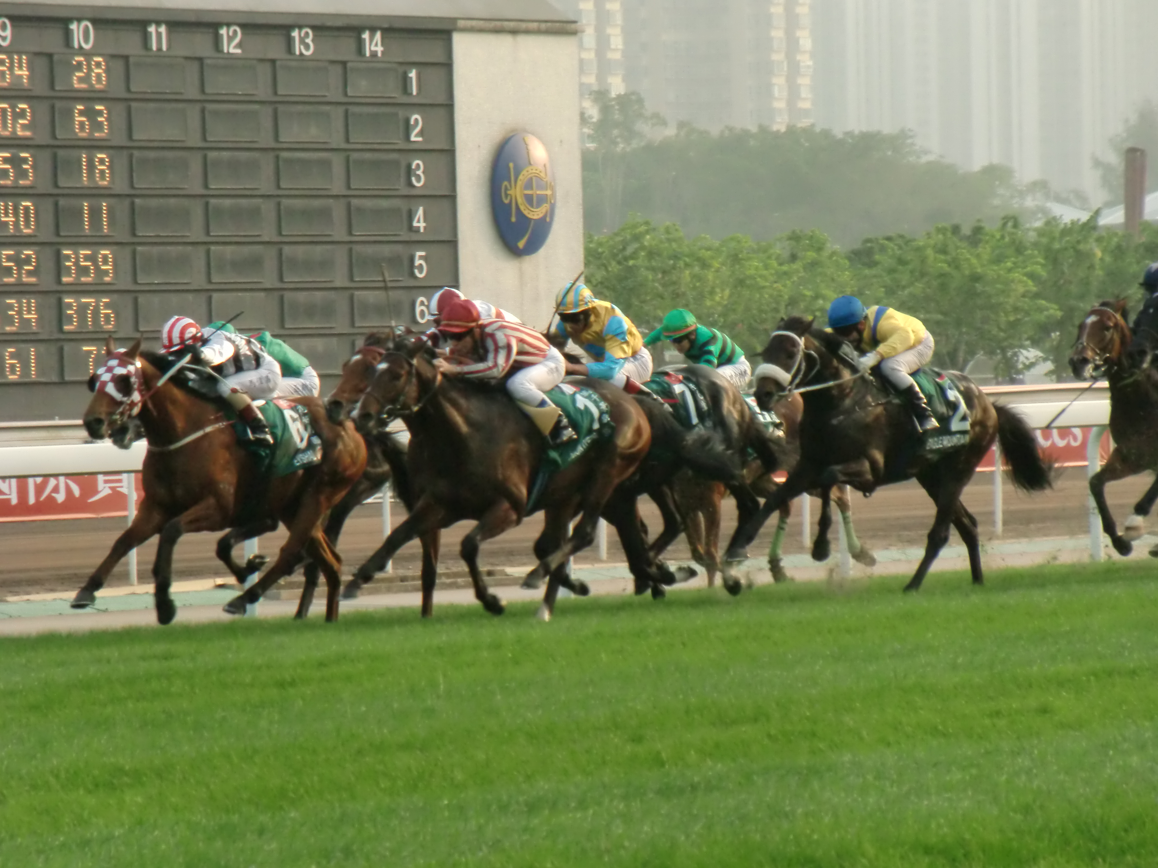 Final turn on 2009 Hong Kong Cup